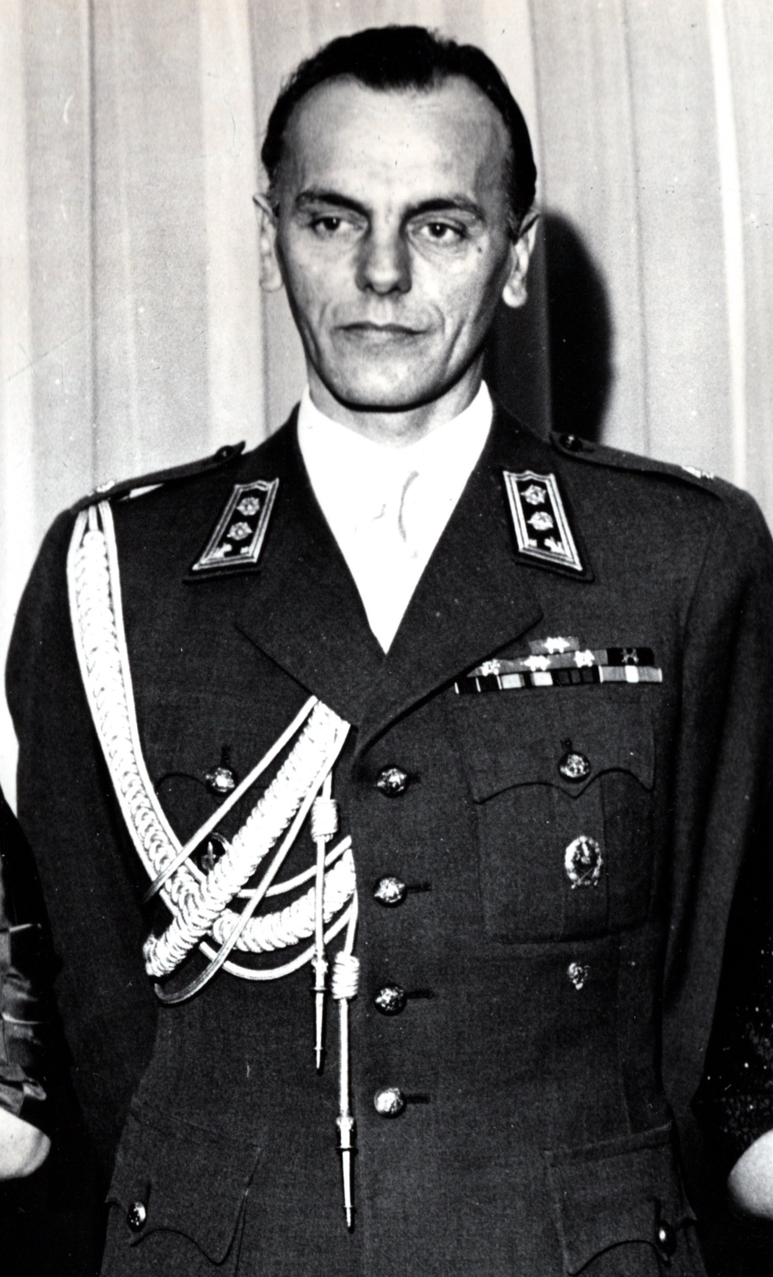 Lt. Col (later Colonel) Olavi Larkas